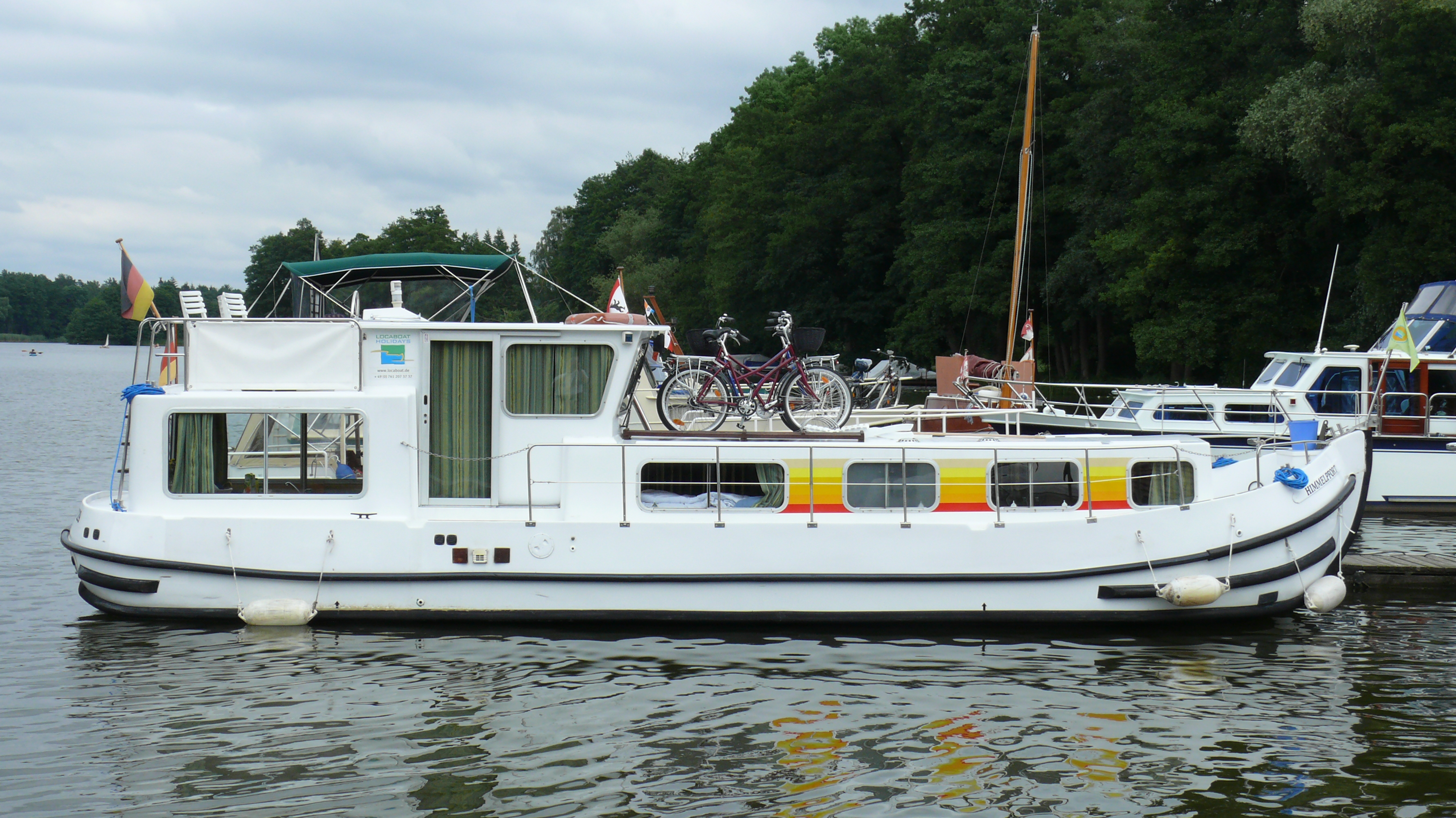 Turist hauseboat Penichettes 1106 FB, Templin, Germany